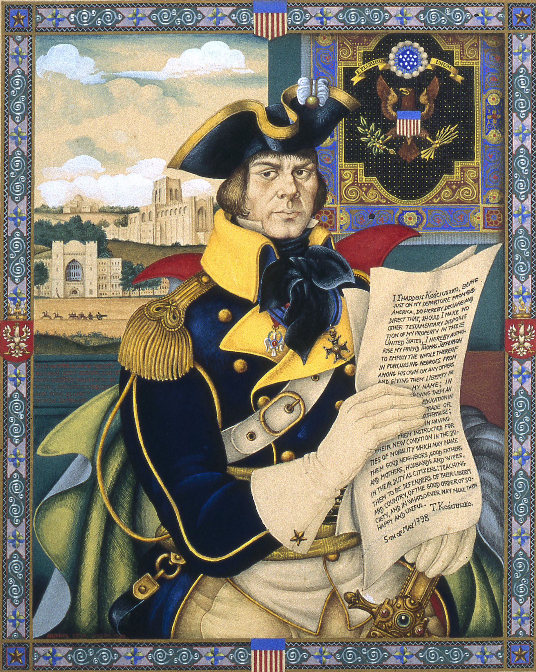 In anticipation of the 1939 World’s Fair in New York, the government of Poland commissioned Arthur Szyk to paint the large series The Glorious Days of the Polish-American Fraternity, which examined the relationship between Poland and the United States through significant contributions made by individual Poles to the history of the U.S. The miniatures featured Polish-born figures from American history, including the Revolutionary War heroes Tadeusz Kościuszko, and Kazimierz Pułaski. The original art hung in the Polish Pavilion at the World’s Fair and was reproduced on postcards printed in Kraków.